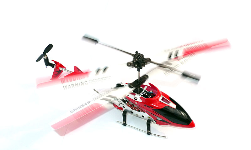 RC Helicopter starting